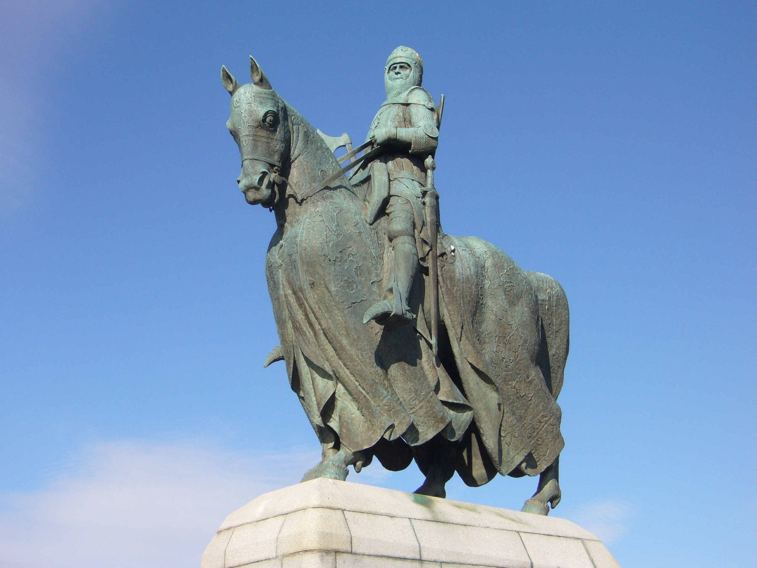 Pilkington Jackson's heroic statue of Scotland's greatest king and war-leader. Bruce holds the axe with which he cleft the head of the impetuous English knight Henry de Bohun on the eve of battle, sending a shiver down the spines of his enemies and filling them with foreboding for the coming fight. The head was modelled on measurements of Bruce's skull following the re-discovery of his skeletal remains in Dunfermline Abbey in 1818. "He died at Cardross, in Dunbartonshire, where he had lived for some time; but he was buried in the Abbey Church of Dunfermline, where a marble monument brought from Paris was put over his grave. In course of time the roof of the church fell in, and the monument was so broken and covered with stones that nobody could tell where it stood. But when workmen were repairing the church, they found pieces of the monument, and on digging underneath, they came upon the skeleton of Bruce. Many people, high and low, came to look upon all that remained of the most famous king who had ever reigned in Scotland, one whose name will never be forgotten as long as there is a Scottish nation." -- P Hume Brown, A Short History of Scotland, 1908